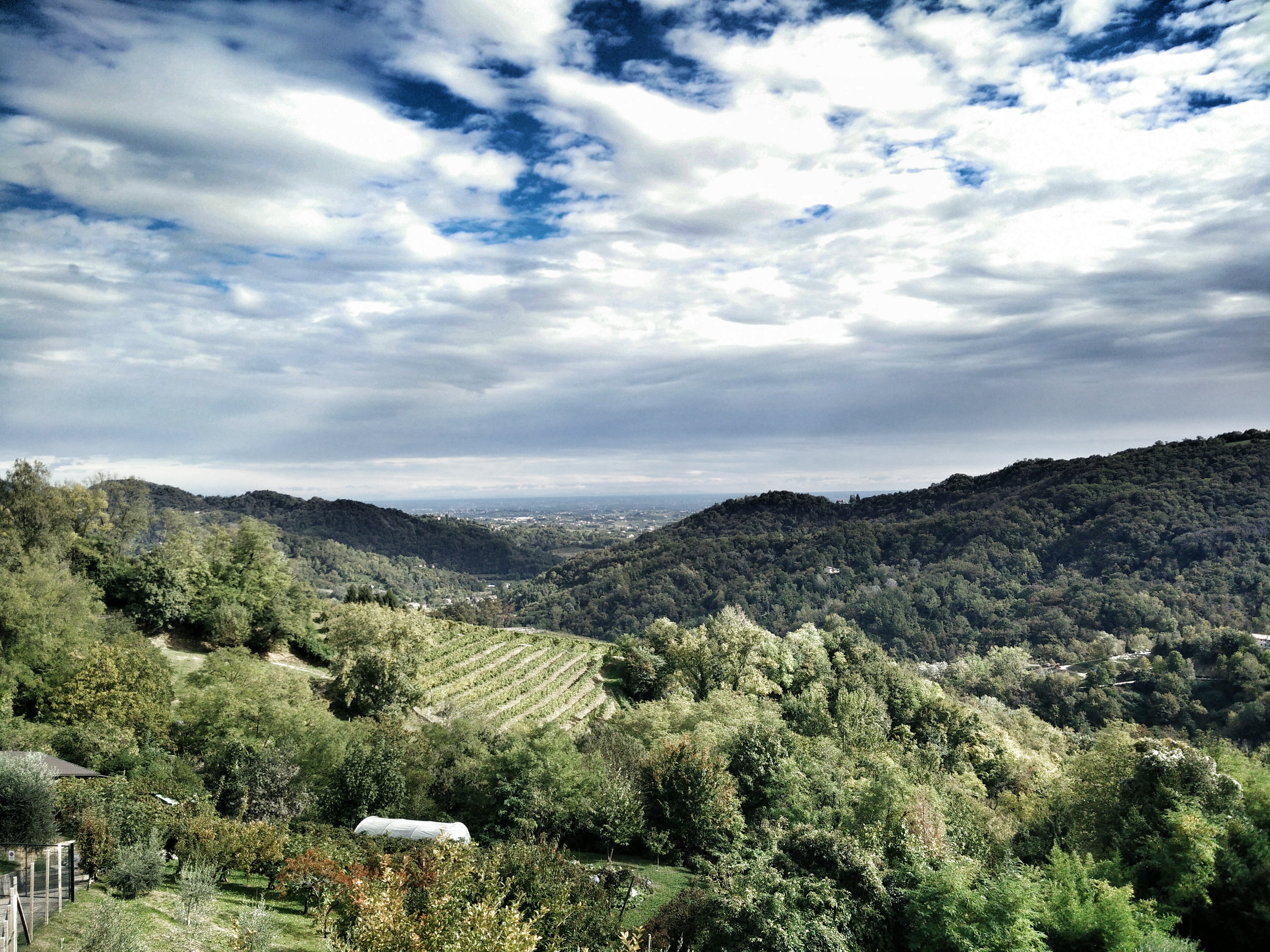 Arfanta, Italia